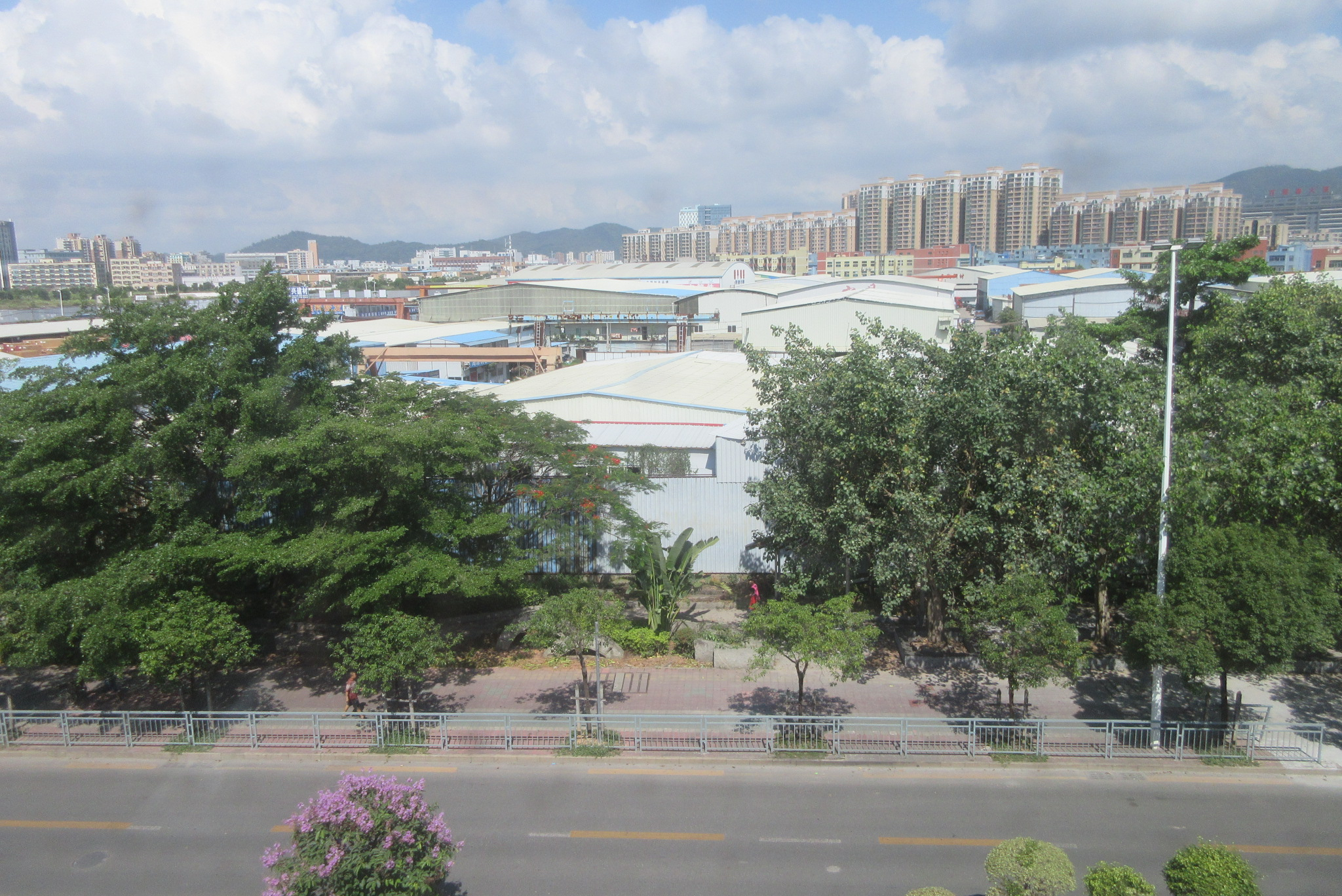 SZ 深圳 Shenzhen 寶安 BaoAn District near Metro Tangwei Station view 寶安大道 Bao'An Blvd June 2017